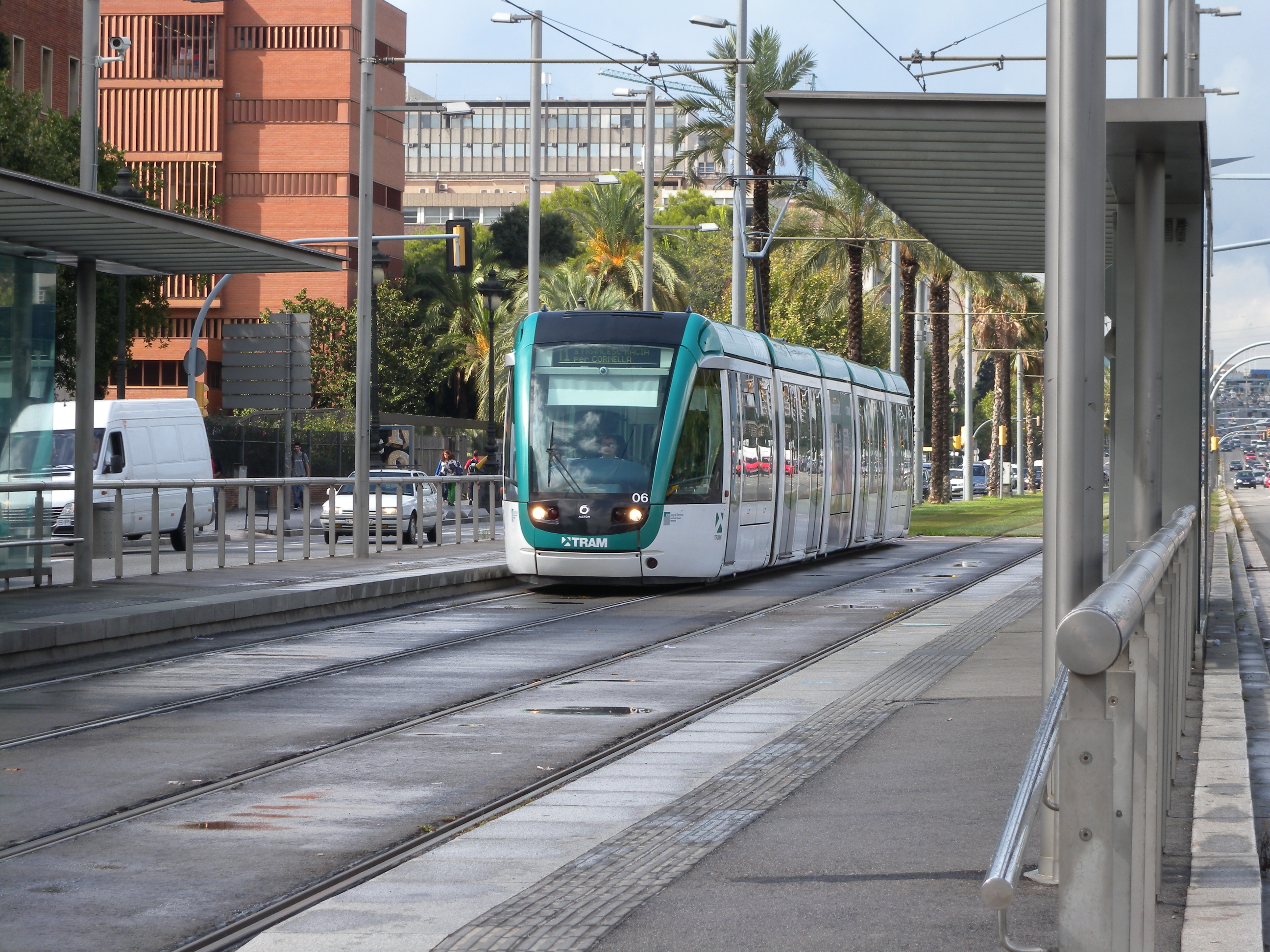 Tram